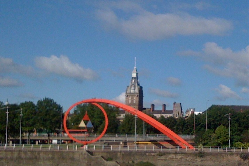 Steel Wave, Newport, South Wales, 2011